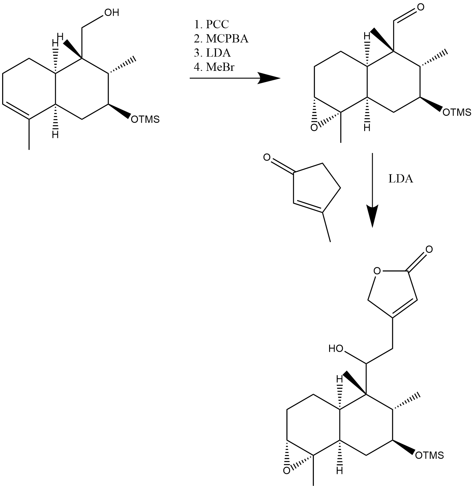 ChemDraw scheme